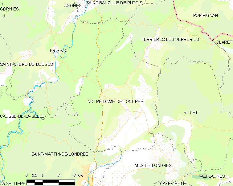 Map commune FR insee code 34185.png - Notre-Dame-de-Londres